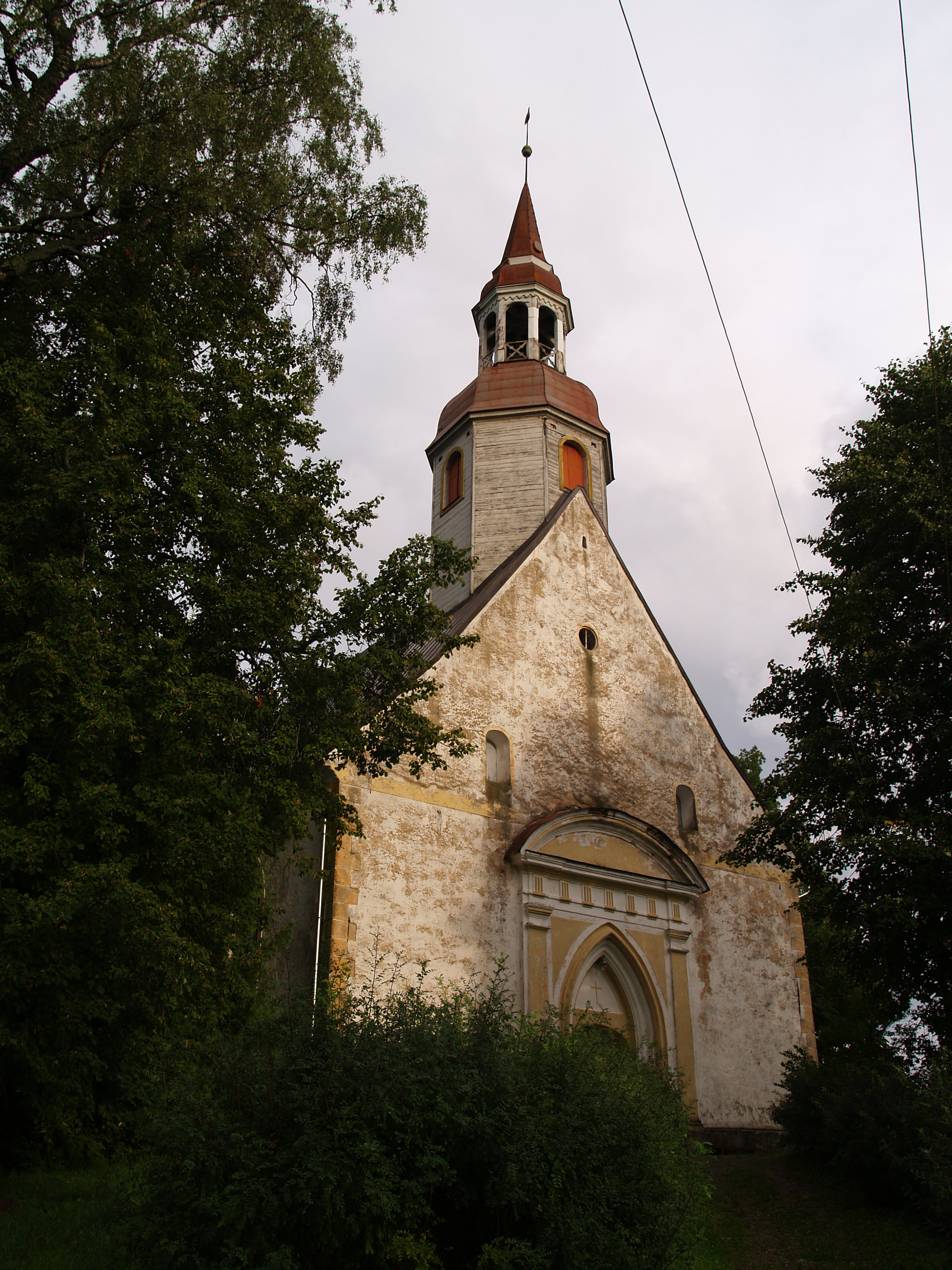 Sangaste church in Valga County, Estonia.